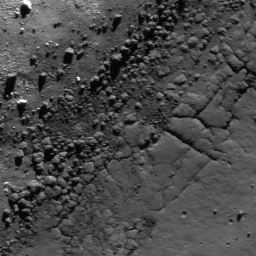 Portion of the interior of De Forest crater (east of central peak). Much of the area of the image is covered by numerous boulders, some of which are up to ~15 m across